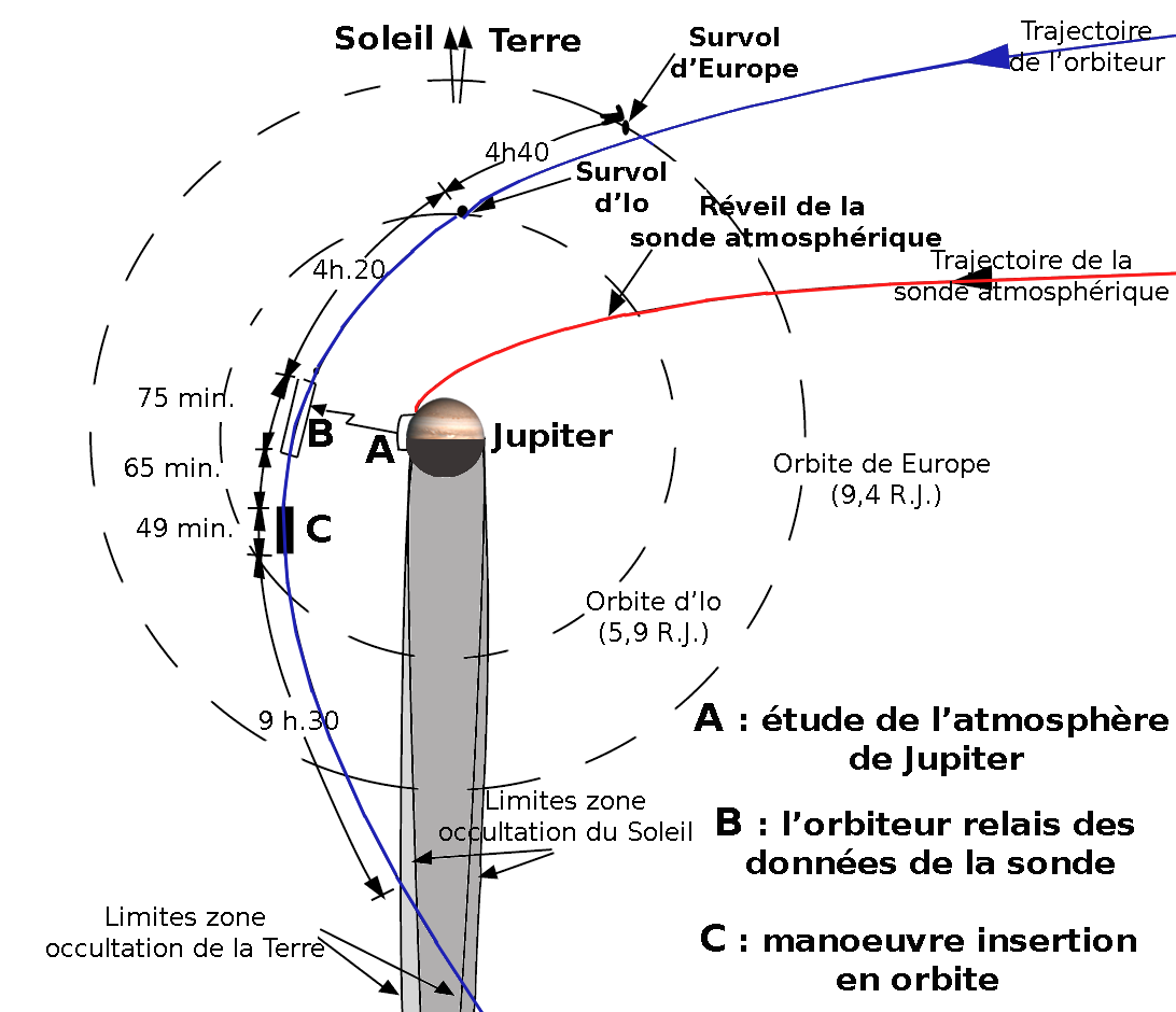 Galileo arrival to Jupiter. French labels